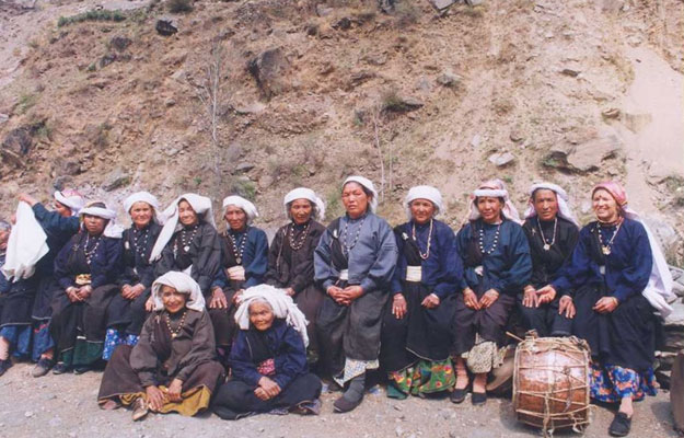 Surviving Members of the Original Reni Squad at the Chipko 30th Anniversary 2004